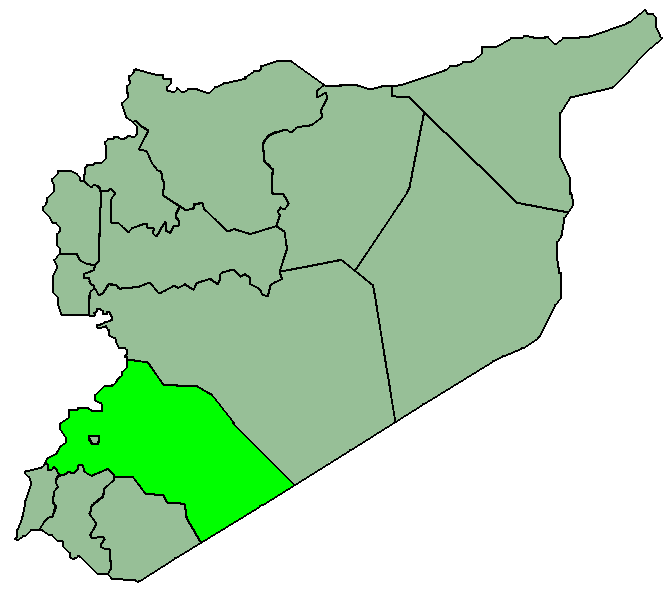 The Syrian governorate of Rif Dimashq.